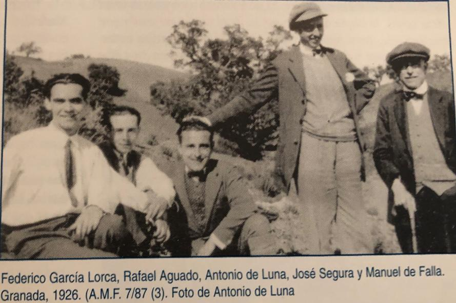 Excursions made in Granada by Federico Garcia Lorca and friends